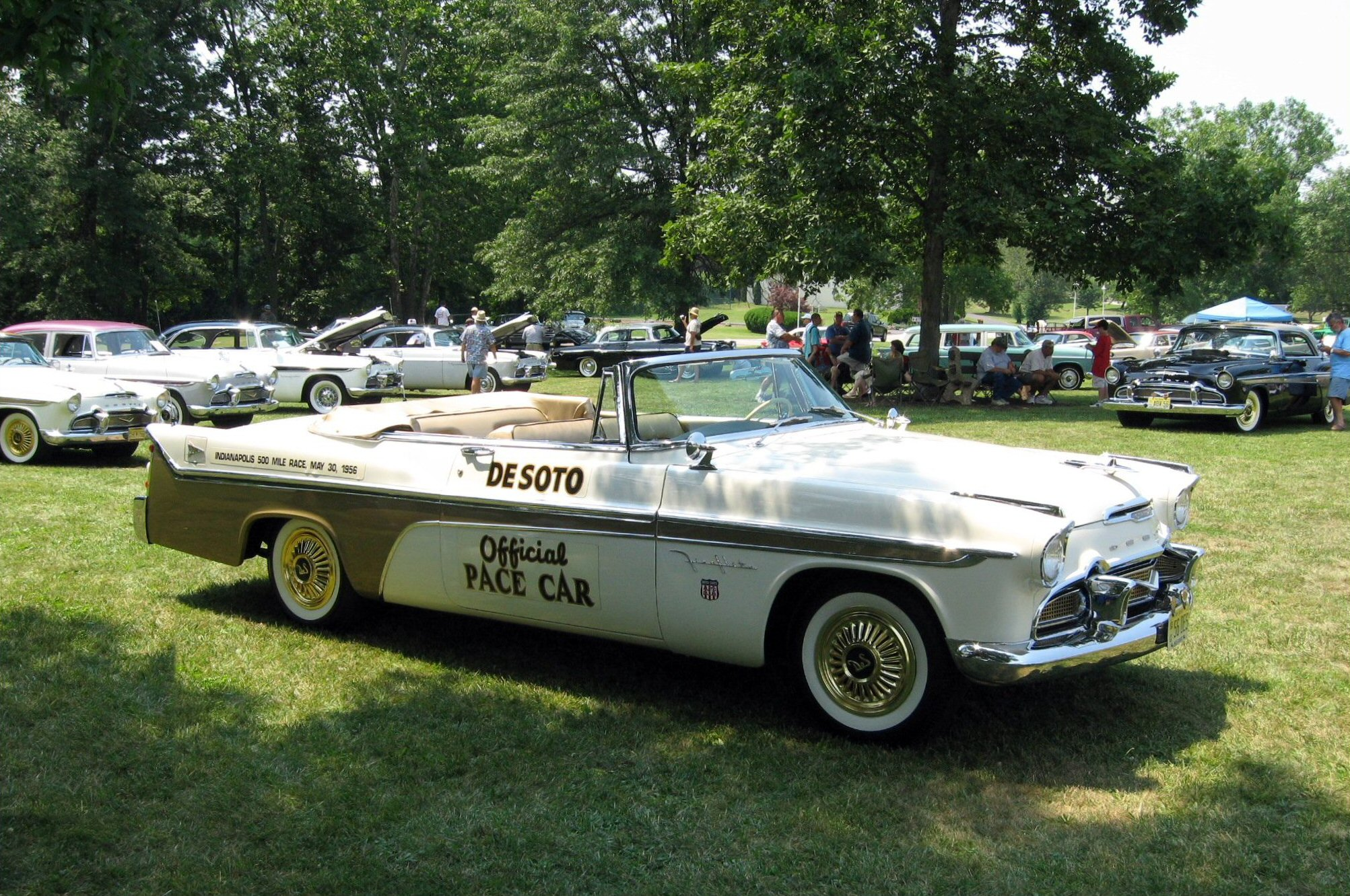 1956 DeSoto Fireflite Convertible Pace Car Top Down.